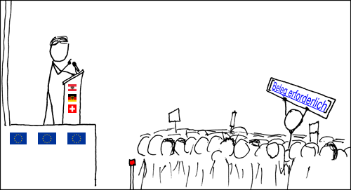 xkcd webcomic 285 entitled "Wikipedian Protestor". Note that this image was originally meant to be displayed with the tooltip "SEMI-PROTECT THE CONSTITUTION".